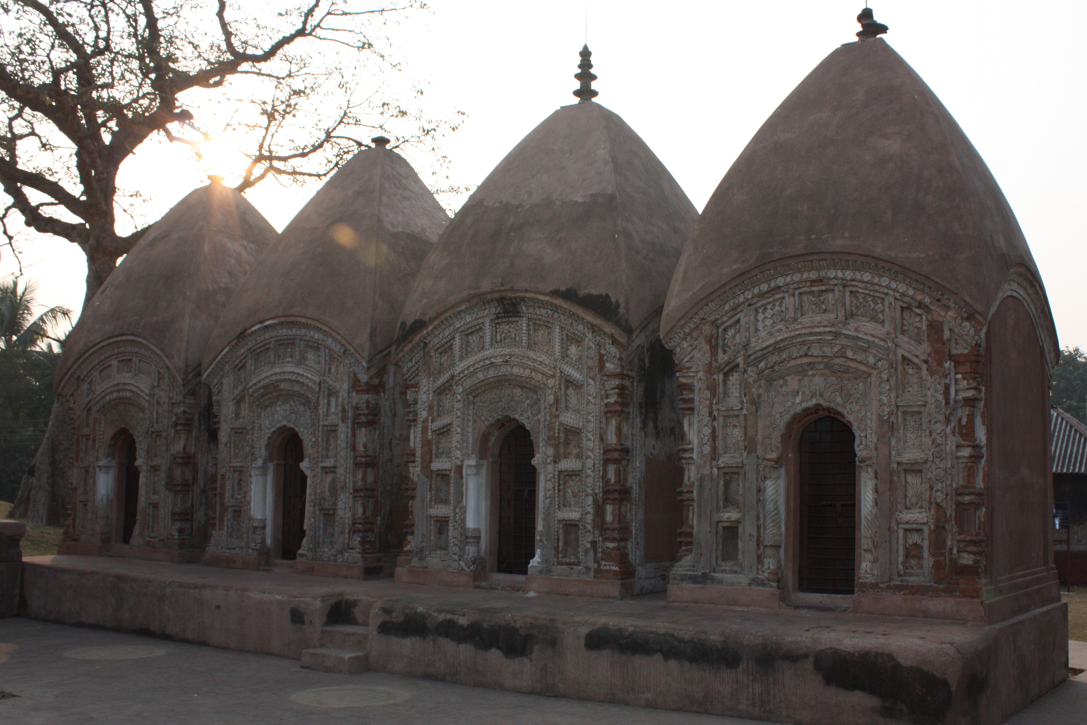 Nanoor temples Pic:Sourav Niyogi.